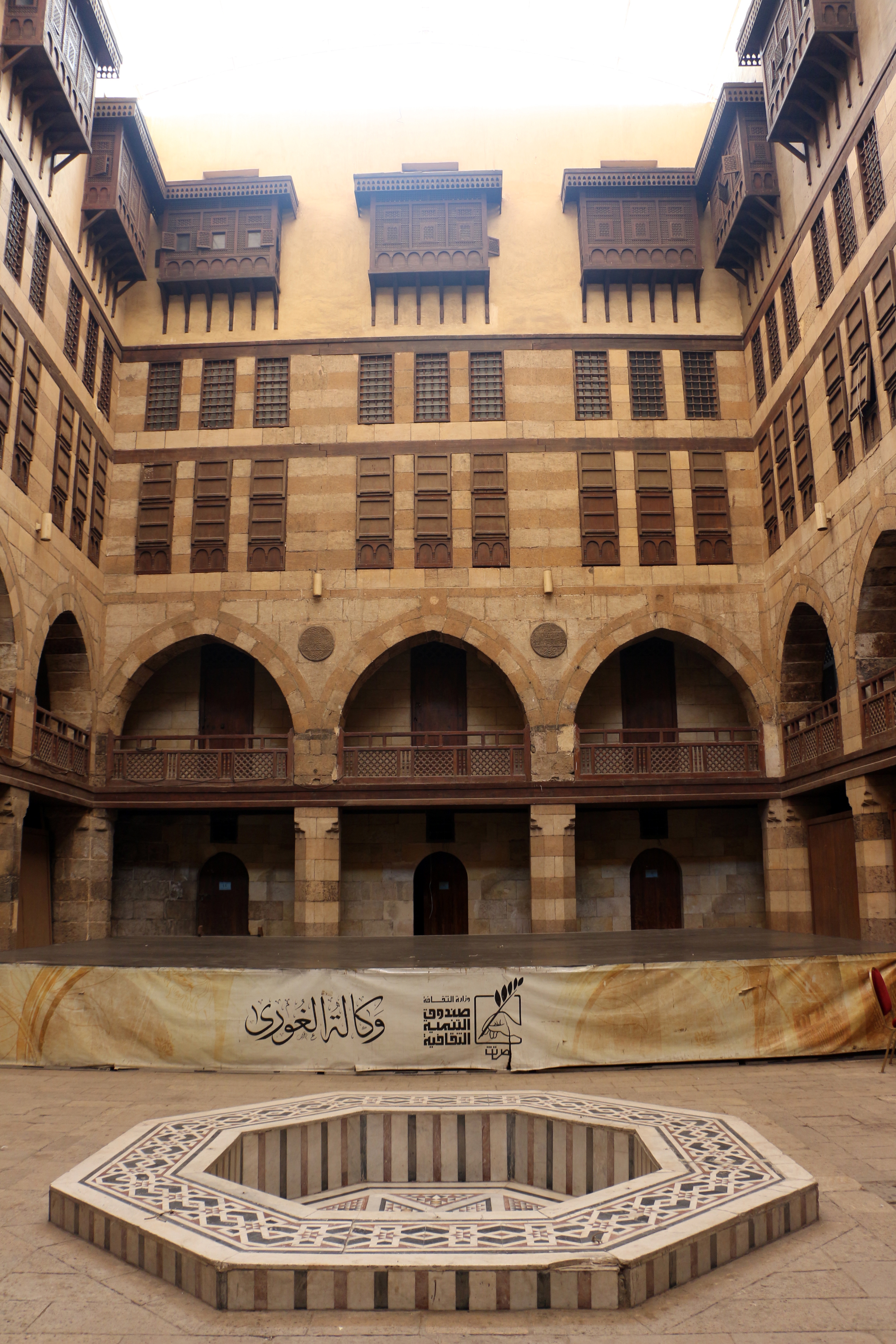 Wikala Al-Ghuri